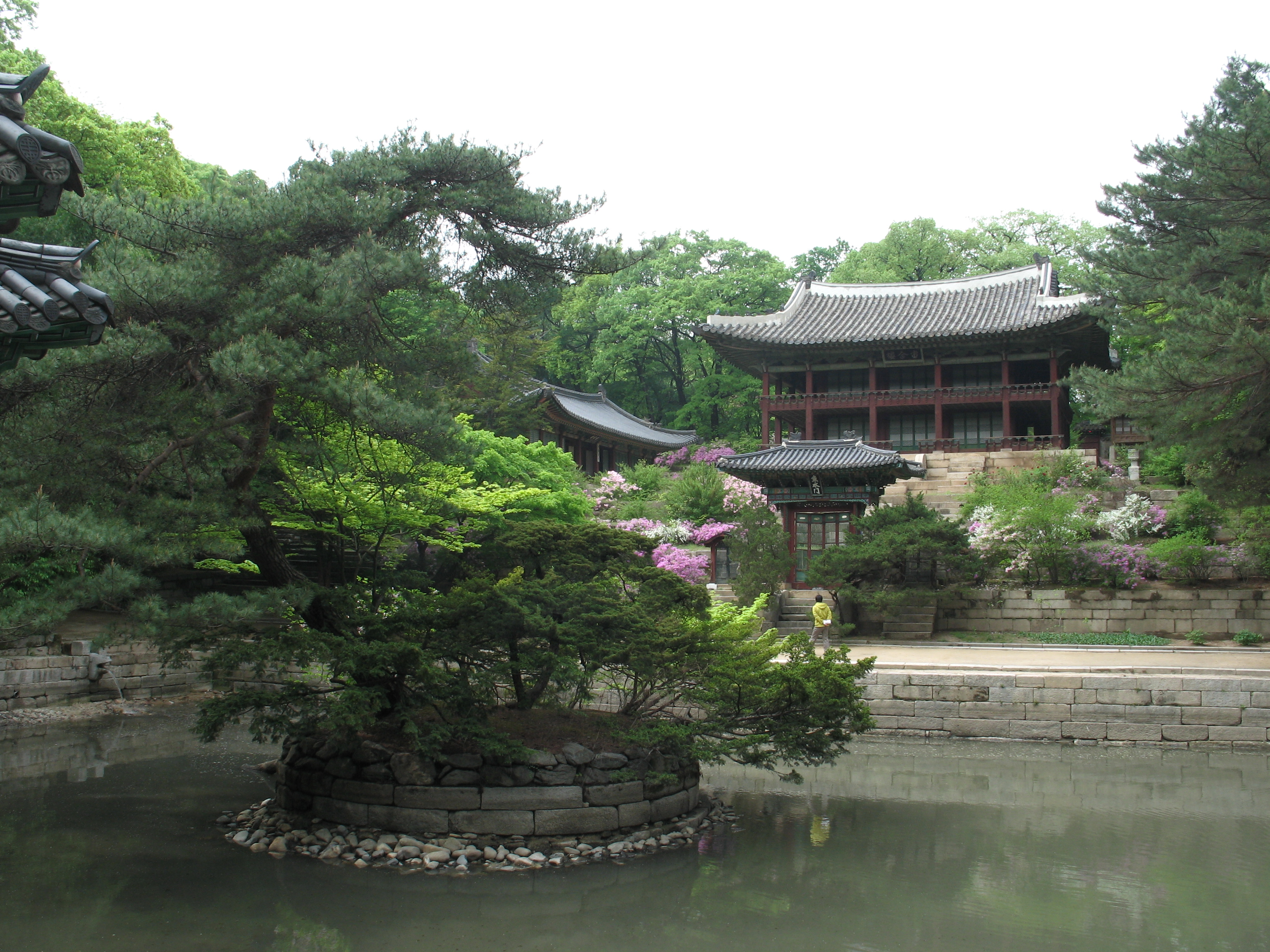 Buyongji Pond and Juhamnu pavilion - tradtional Korean garden at Changdeokgung in Seoul - South Korea.